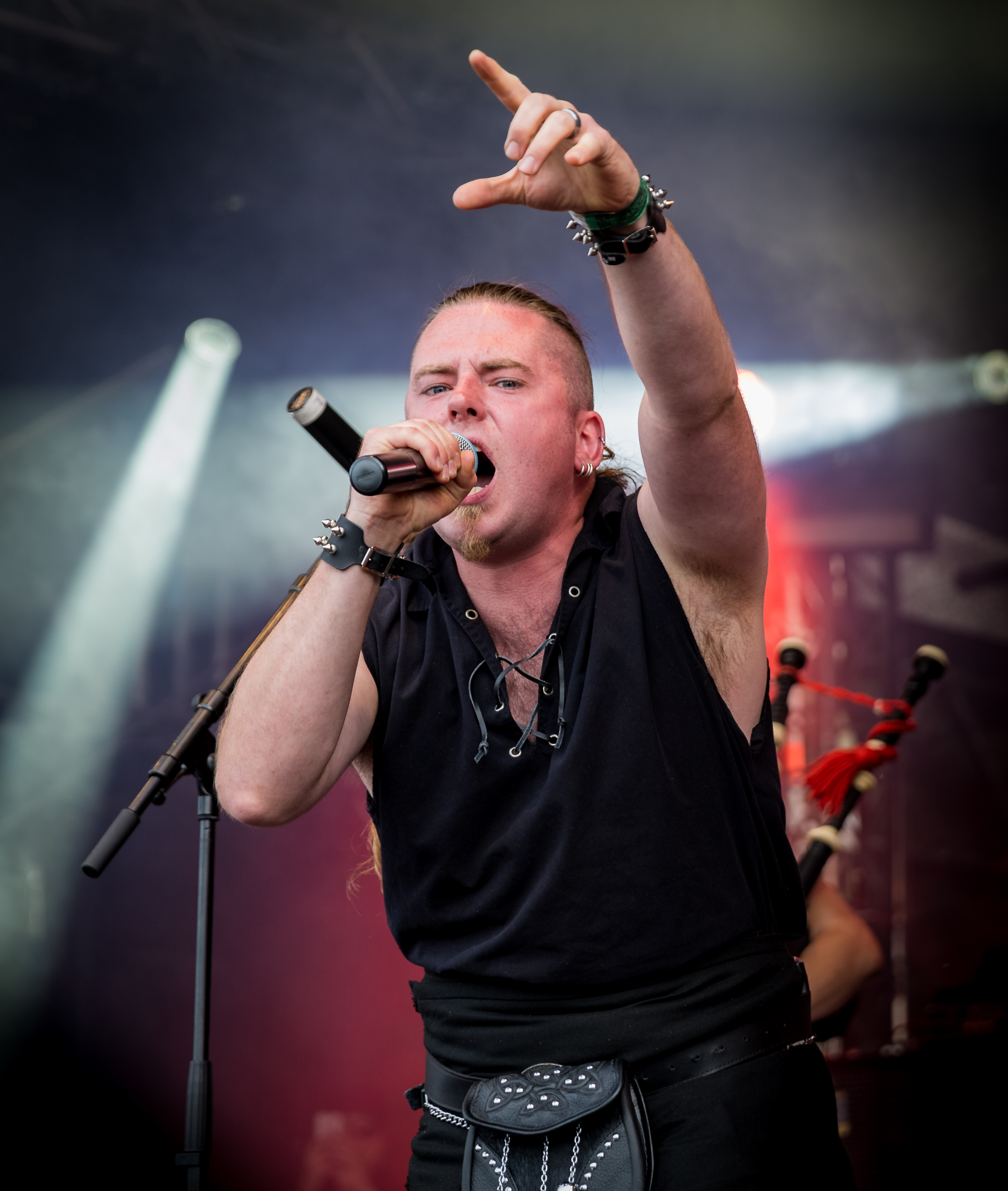 Skiltron - Wacken Open Air 2015